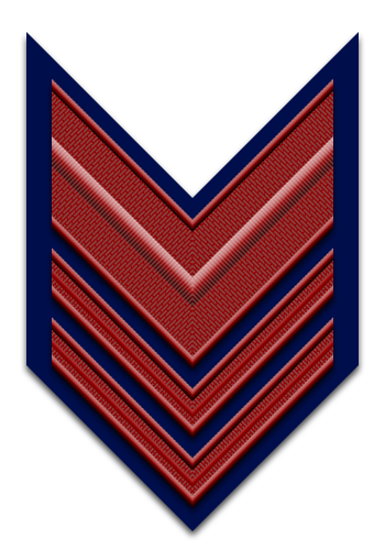 insignia for the sleeves of the rank of First Airman of the Italian Air Force